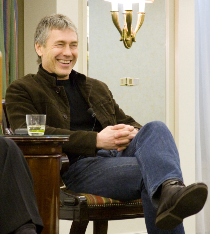 Tony Gilroy performing at a Hudson Union Society event in March 2009.